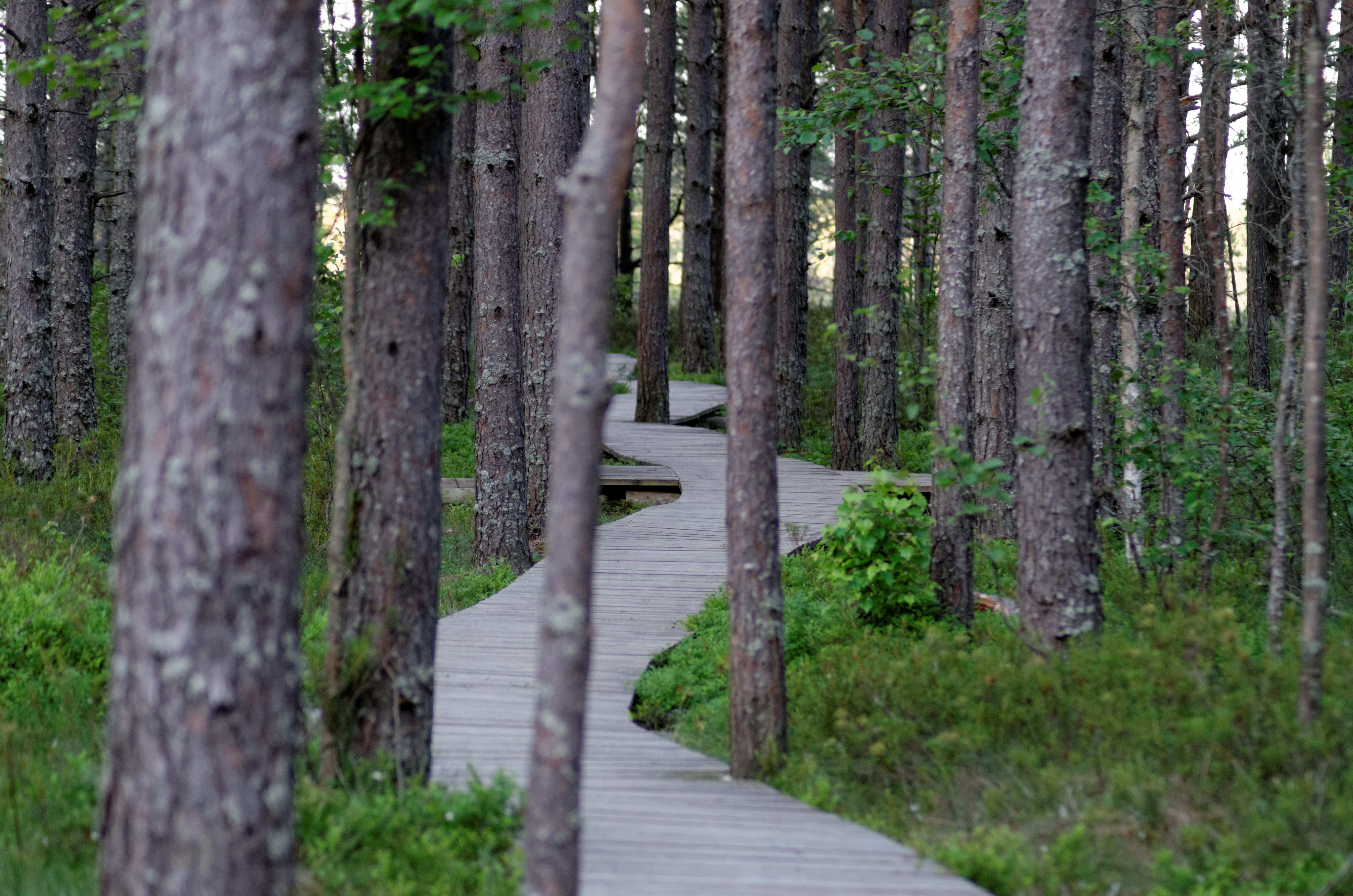 Boardwalk near Tolkuse Bog, Estonia.